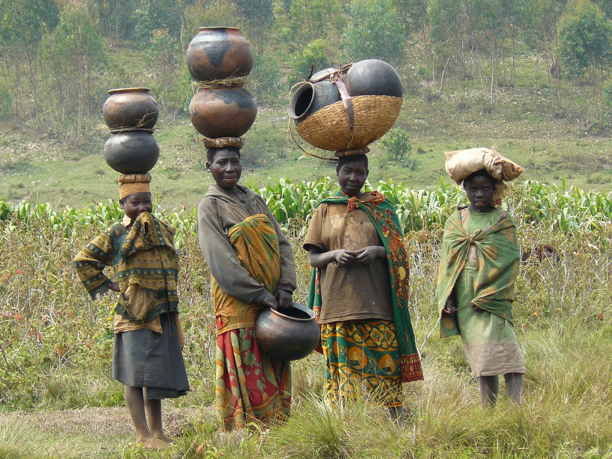 Batwa women with traditional pots. Taken in Burundi, in the village of Kiganda in the province of Muramvya in July 2007. Women are watching a community event, but not involved. This image cropped from the original at File:Batwa women in Burundi.jpg